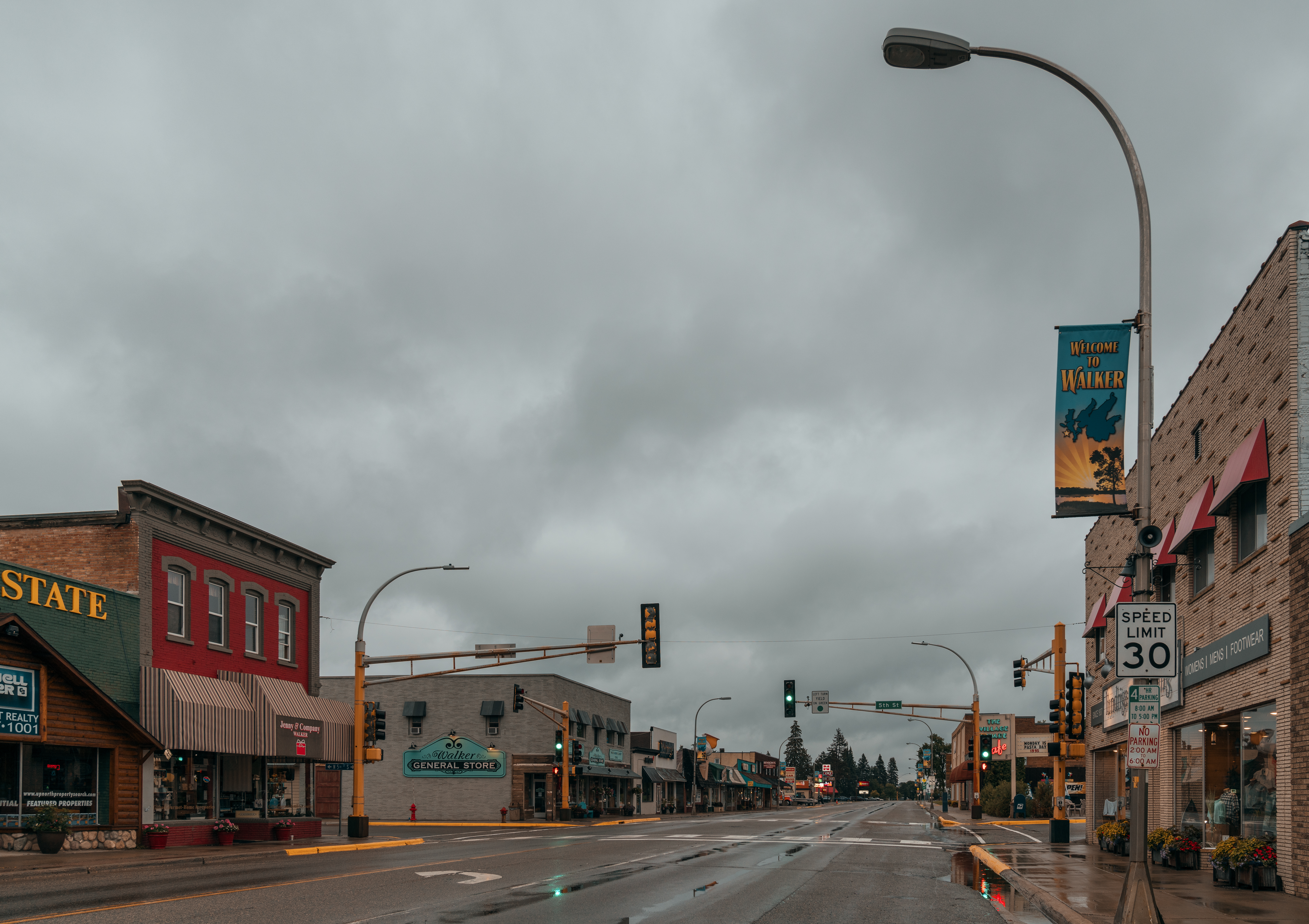 Minnesota Avenue & 5th Street in the city of Walker, Minnesota.